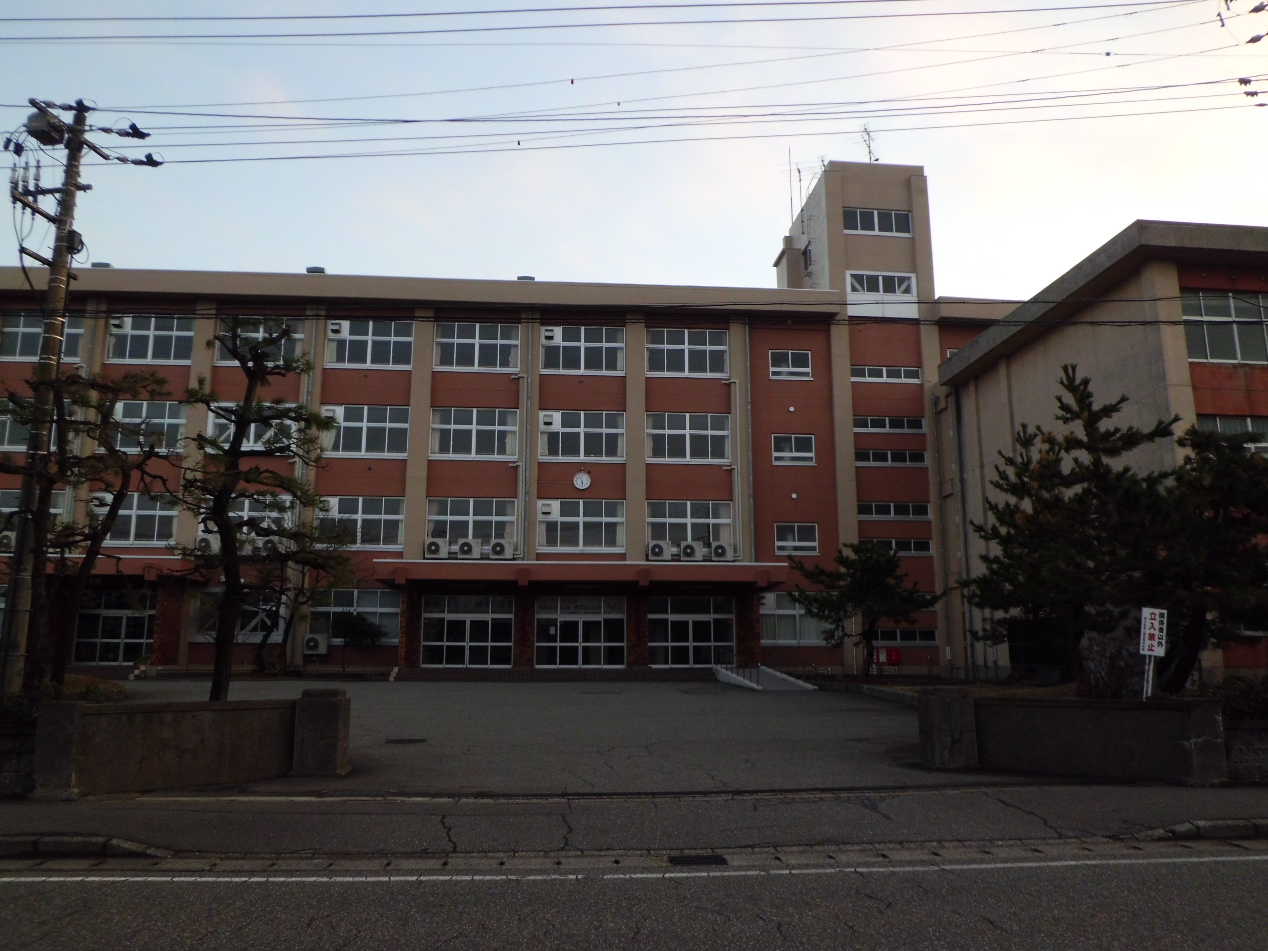 Kashiwazaki Technical High School of Niigata prefecture, Japan